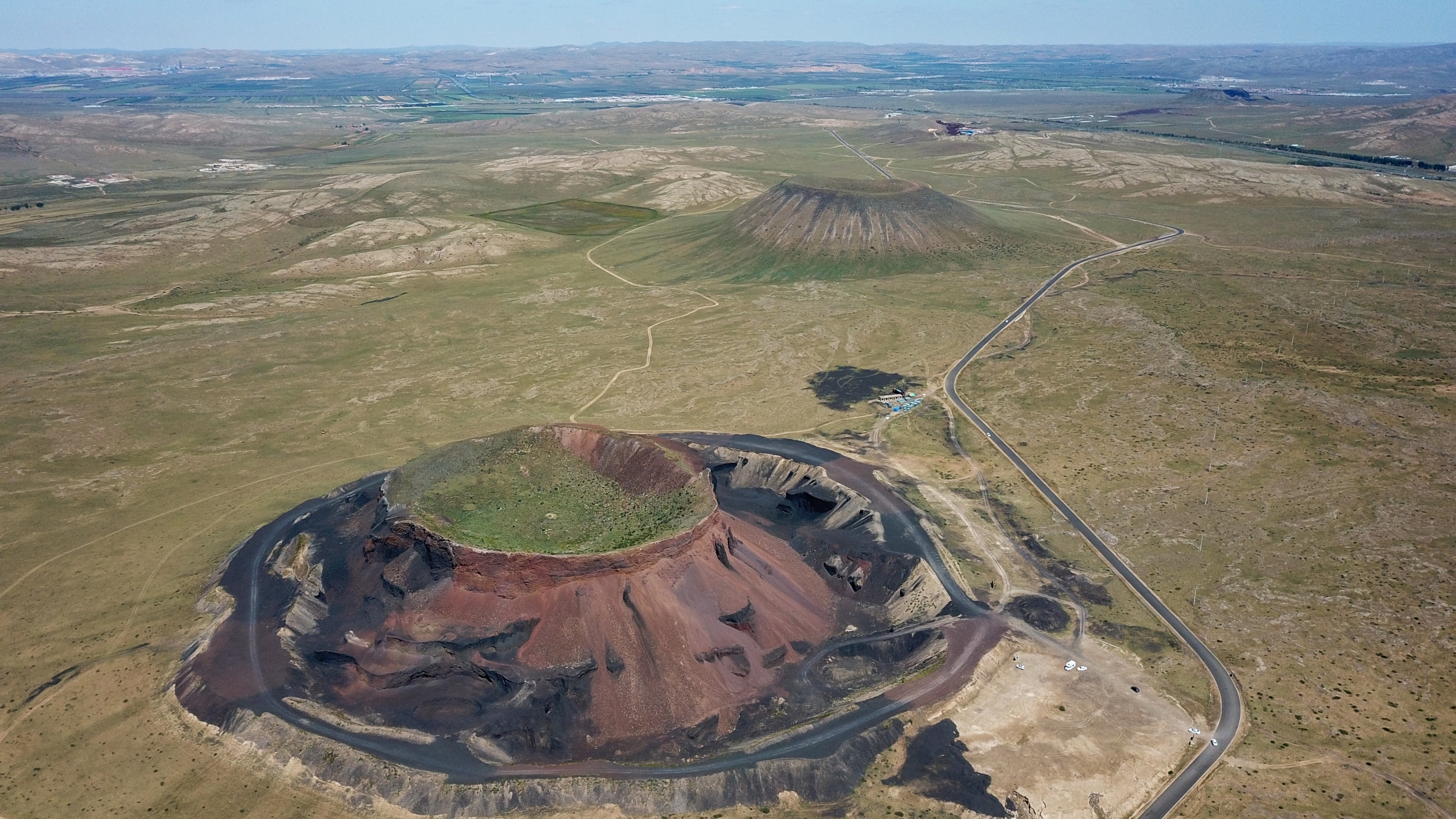 Wulanhada volcanic cluster, Qahar Right Middle Banner, Ulanqab, Inner Mongolian,China. Red one(Been mined) is the southern Liandanlu(炼丹炉), No.5 Volcano in the middle, northern Liandanlu in the upper right corner, Geopark between the No.5 volcano and the northern Liandanlu.